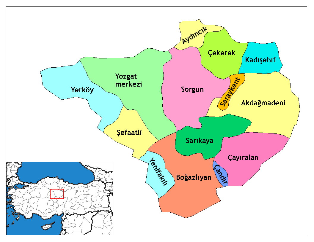 Map of the districts of Yozgat province in Turkey. Created by Rarelibra 17:54, 4 December 2006 (UTC) for public domain use, using MapInfo Professional v8.5 and various mapping resources. Edited by One Homo Sapiens Corrected text where İ,Ş,ı,ğ,or ş occurs in name. Source: [statoids-com]. Increased font size and enhanced color differences among adjacent districts.